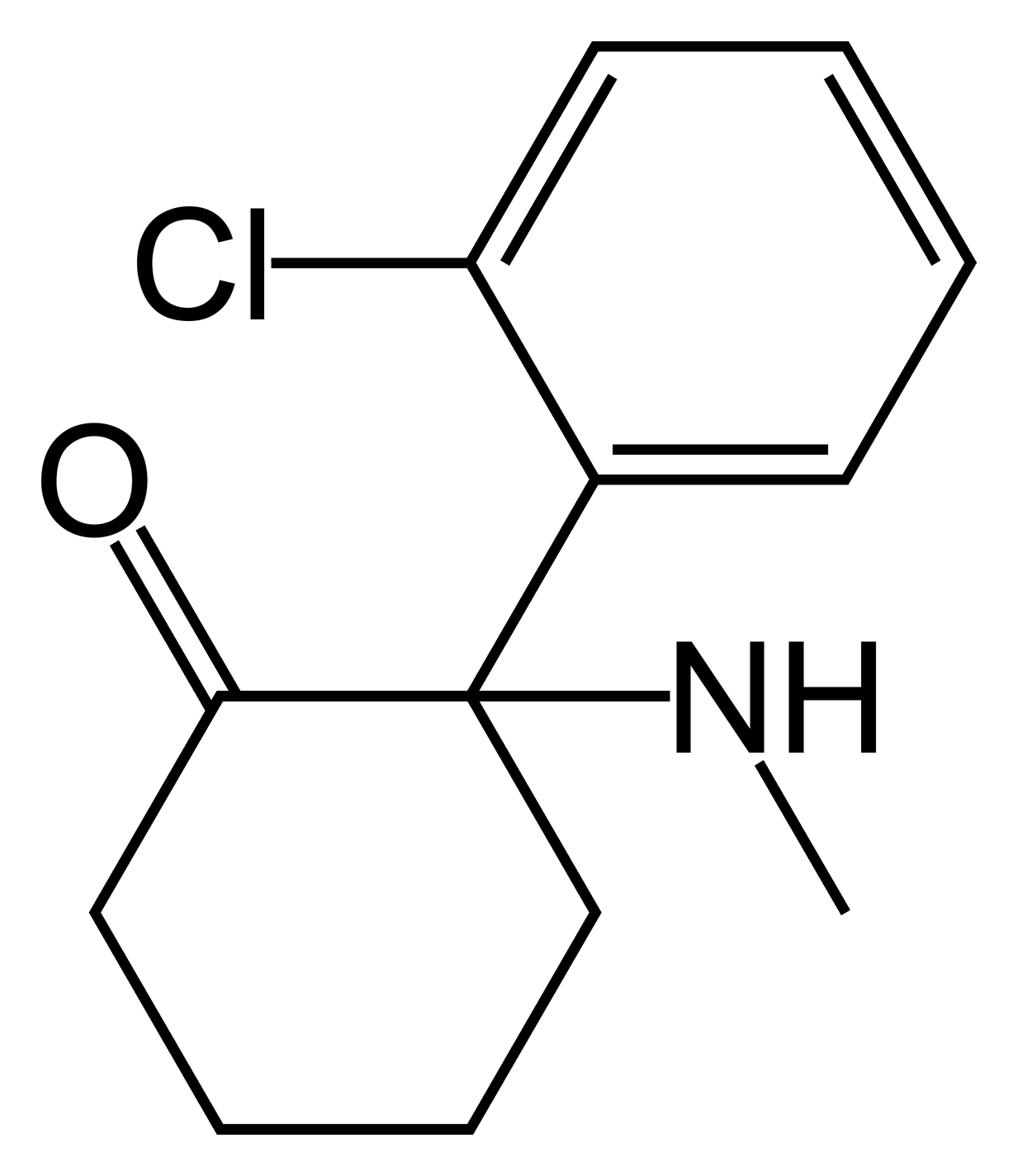 Chemical structure of ketamine - self made in ChemDraw by Ben. Benjah-bmm27 23:48, 3 March 2006 (UTC)